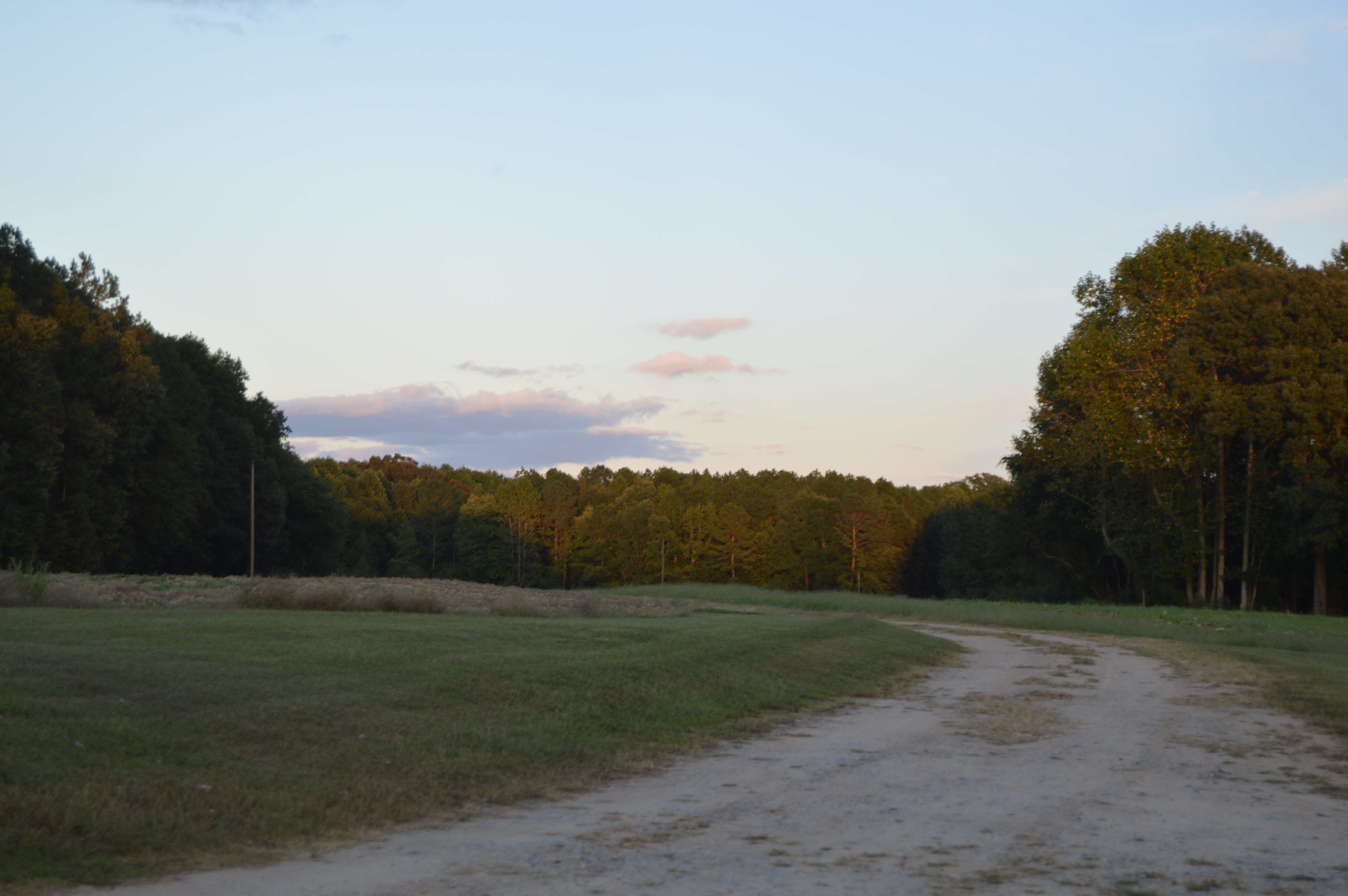 Driveway to the Rose Hill estate, located on Indian Town Road northeast of Capron in Southampton County, Virginia, United States. The estate is listed on the National Register of Historic Places.